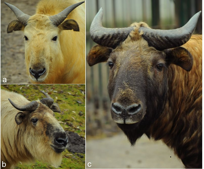 a.) Budorcas bedfordi, b.) Budorcas tibetana, c.) Budorcas taxicolor